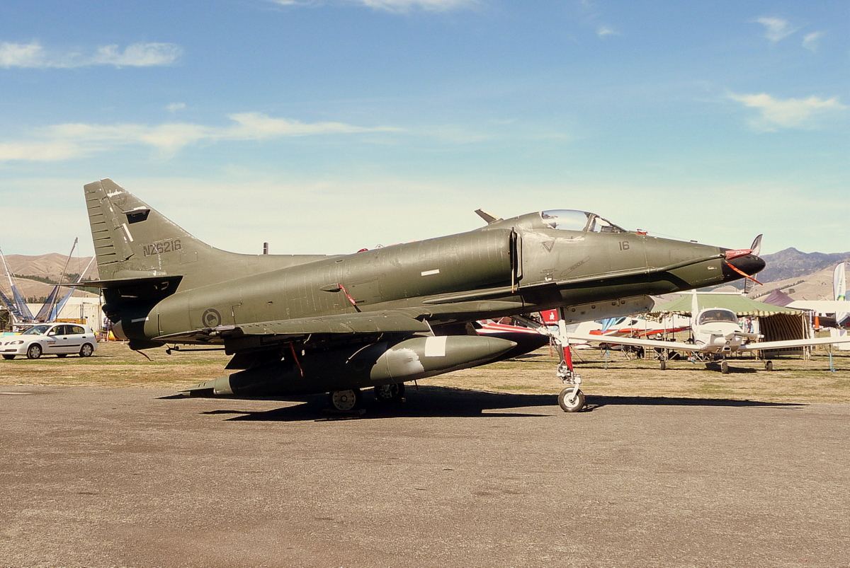 Six retired Royal New Zealand Air Force Douglas A-4K Skyhawks are preserved in museums in New Zealand. This one is preserved at the Omaka Aviation Heritage Centre located at Omaka Aerodrome on the outskirts of Blenheim. Digital image of A-4K NZ6216 taken by YSSYguy on 3 April 2015 and uploaded for use in the List of preserved Douglas A-4 Skyhawks article.